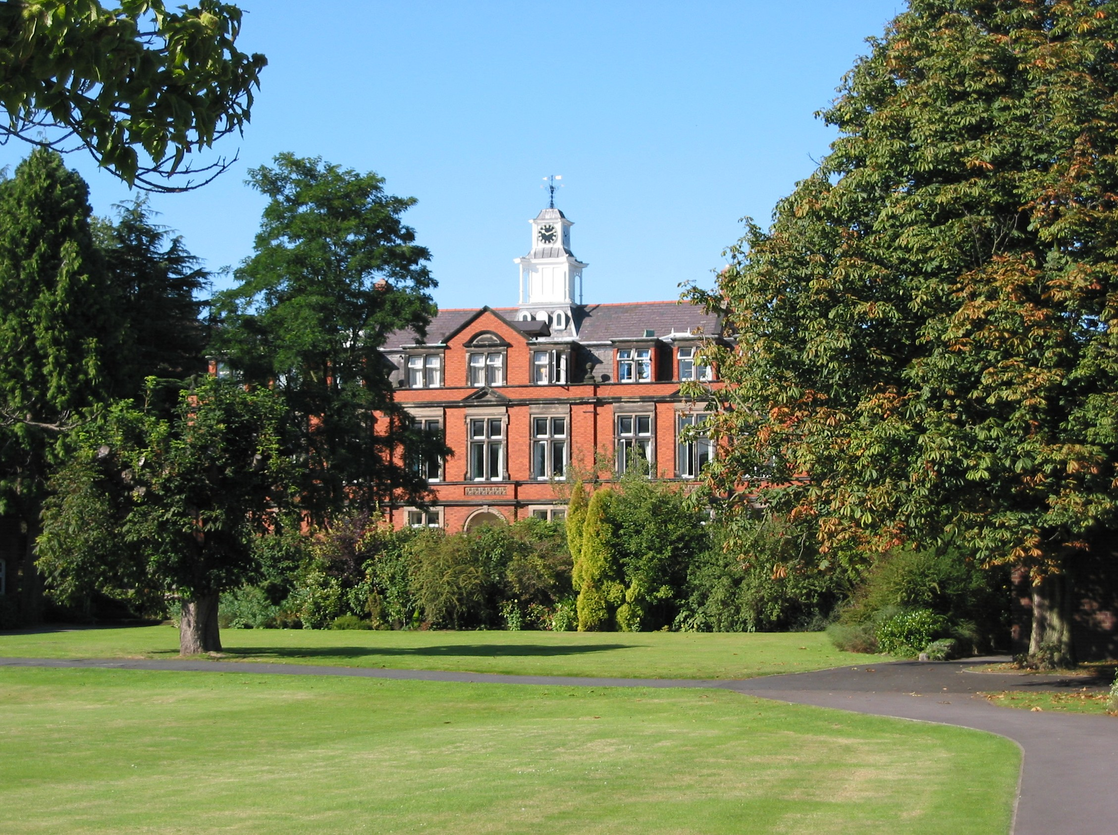 Shropman 20:15, 11 February 2007 (UTC) Own work York House, Wrekin College, Sutherland Road, Wellington, Telford, Shropshire, England TF1 3BH